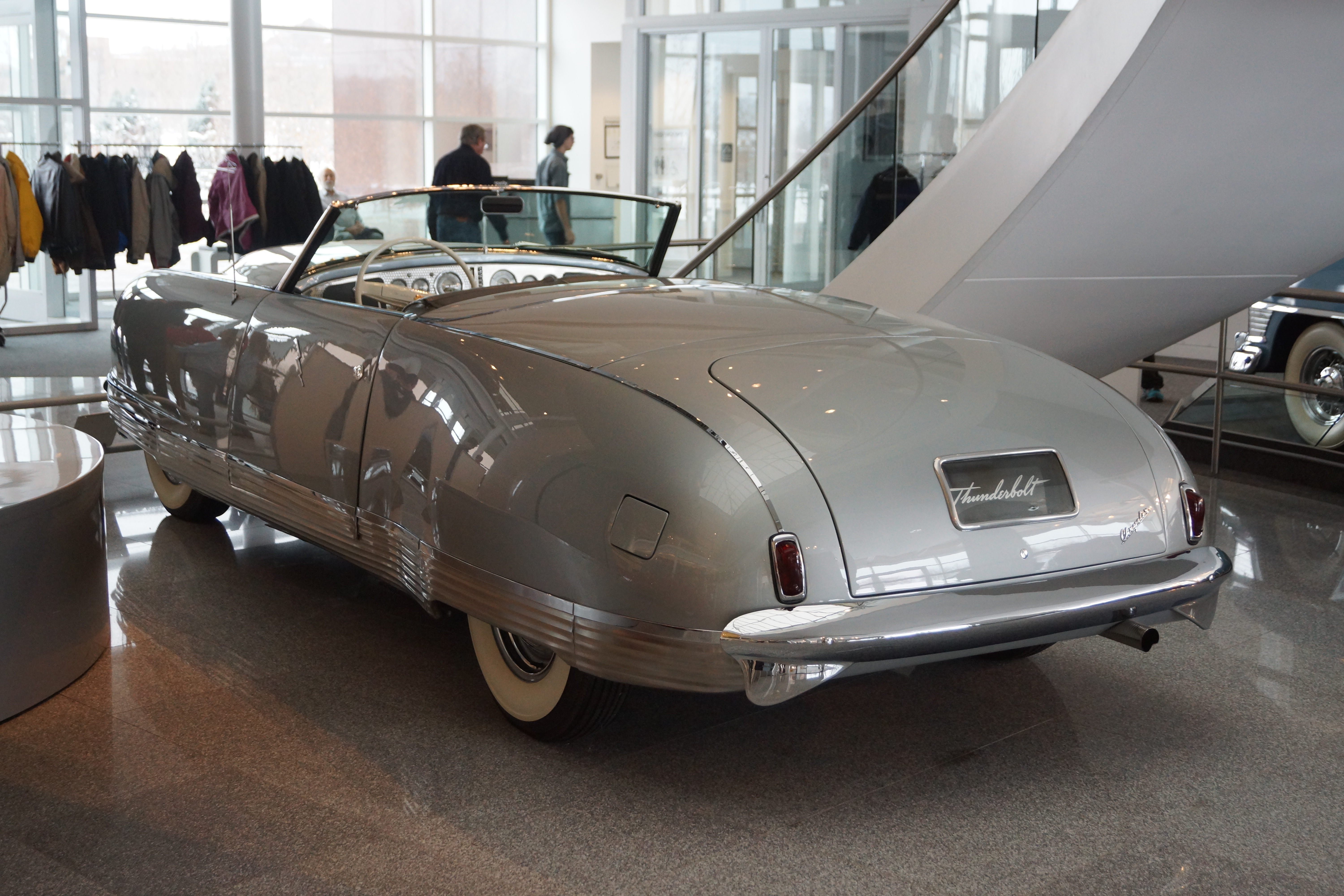 Click here for more car pictures at my Flickr site. Or here for my Car Crazy Tumblr site. Back on November 4th, Hemming's Blog posted an article about the closing of the Walter P. Chrysler Museum . I had missed a couple other opportunities with the WPC Club and others to get into the museum, after it had closed to the public. I did not want to regret missing this last chance to see all of the vehicles before being spread out to other facilities. I trekked from Western Minnesota to Eastern Michigan during Winter Storm Decima. I missed the worst parts of the storm, but still had to endure the aftermath winds, sub zero temperatures and a lake effect snow storm. The trip was difficult, but well worth it. I got to see several Chrysler Corporation concept and show cars that I had only seen pictures of before. There were several clever interactive displays demonstrating various innovations over the years. Since it was the last chance, I duplicated several shots using different camera settings to see what produced better results. I wish I had invested in a strobe light diffuser for all of those indoor pictures. I have not had much experience or success in the past with indoor car images.